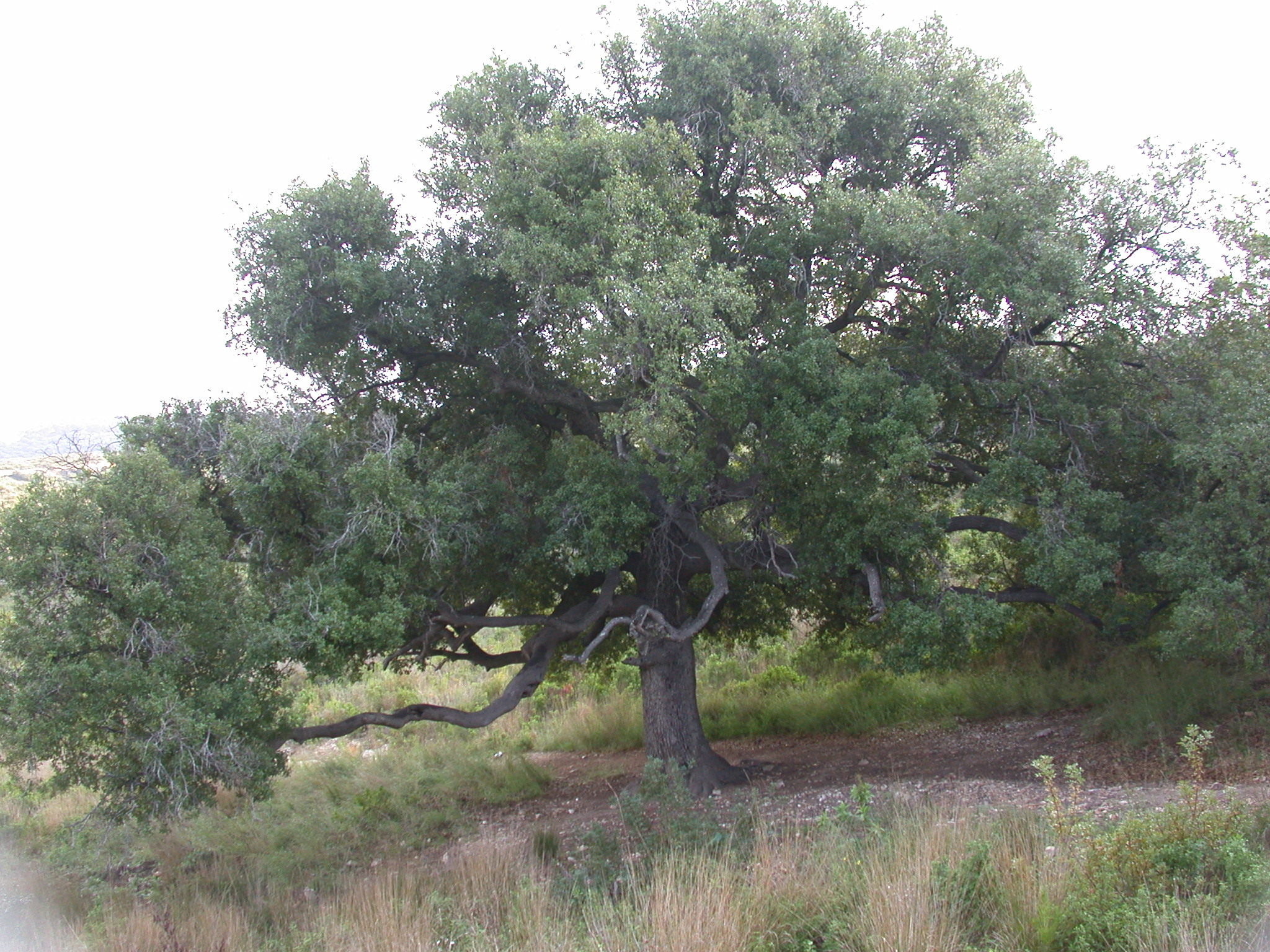 Old sacred tree of Quercus calliprinos at Shajarat Al Arba'in (Horshat Ha'arba'im), Mount Carmel, Israel, November 20, 2008